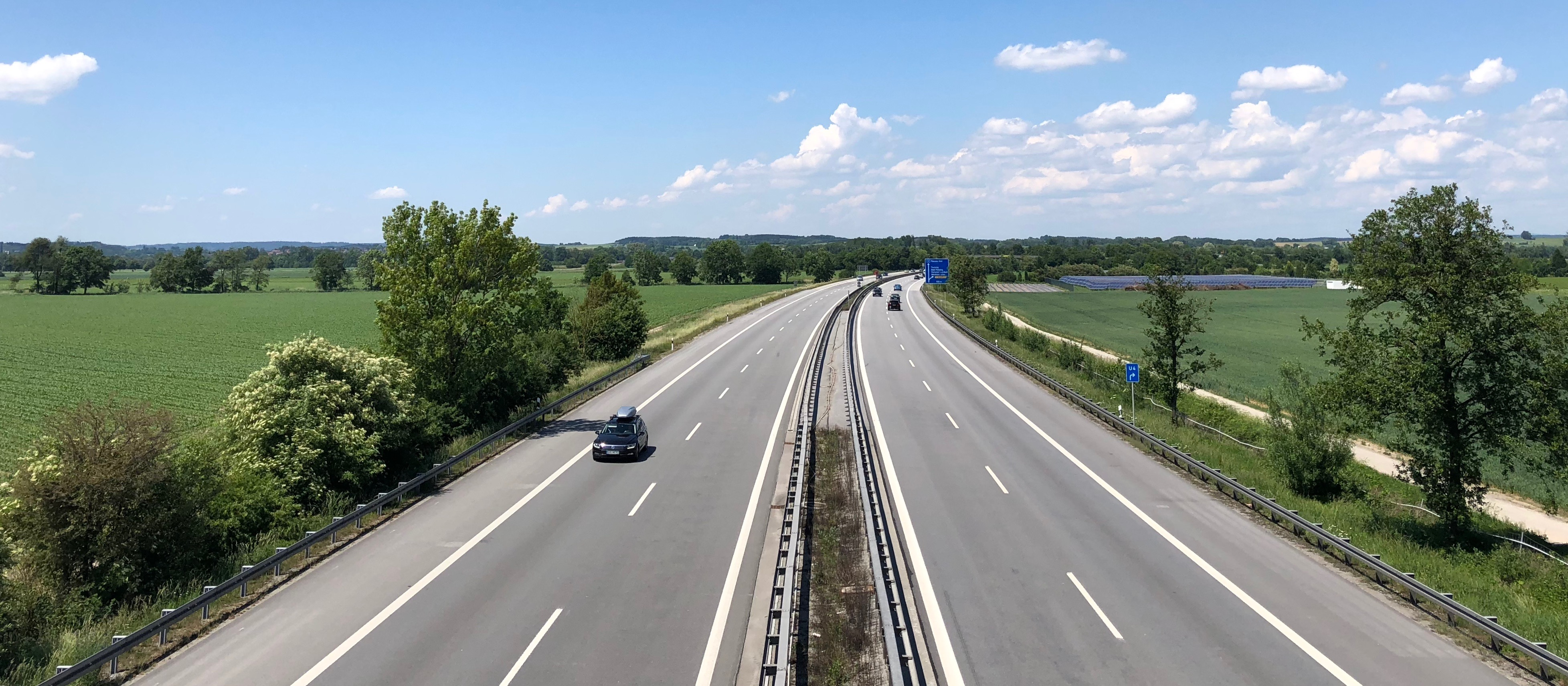 German Federal Motorway 3 between Exit Pocking and Austrian border in Suben